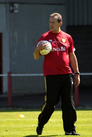 Georges Leekens with the belgian national football team in Sclessin (Liège).